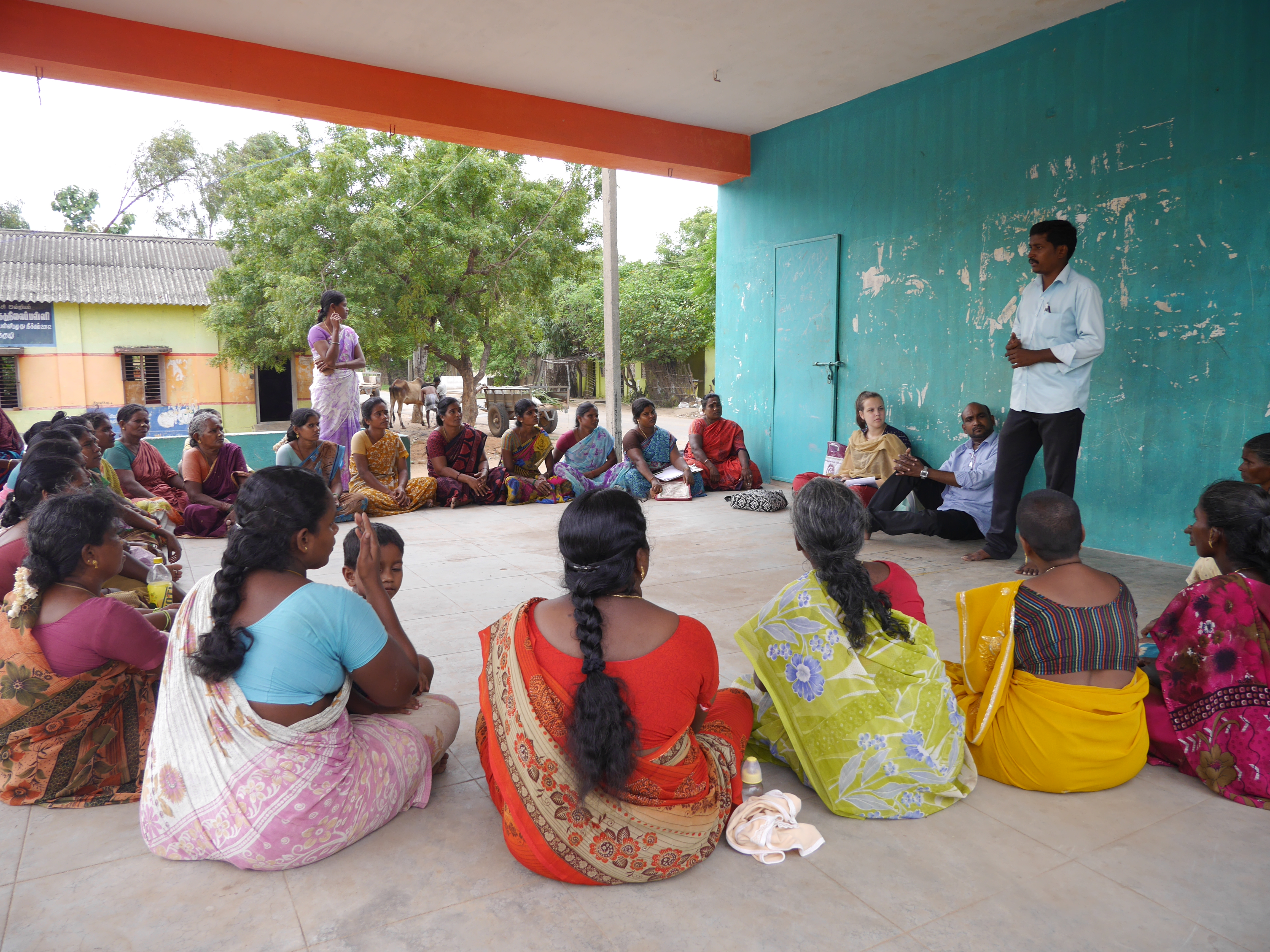 I took this picture during a women self help group meeting on 29/08/2017 in Cuddalore District, Tamil Nadu, India.